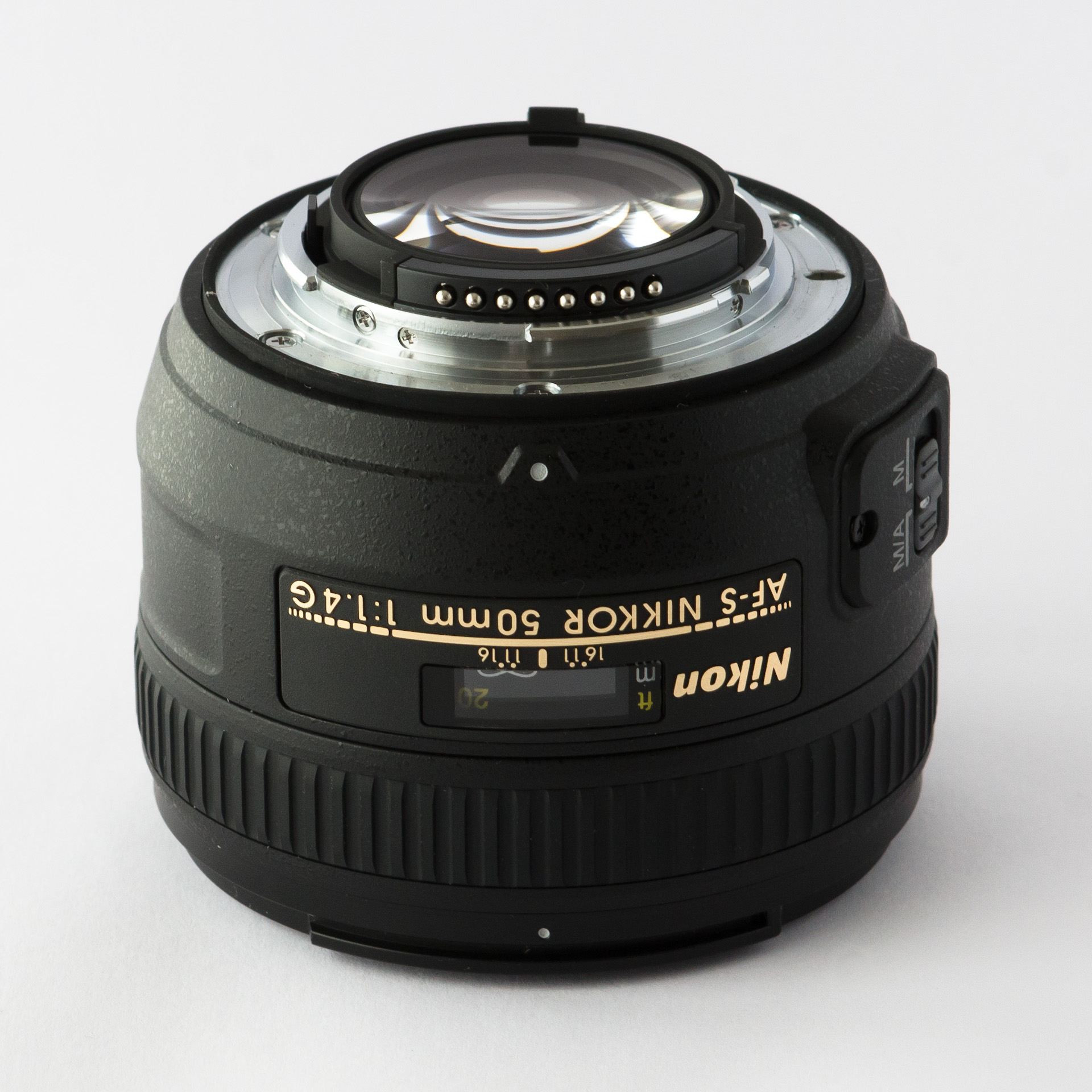 AF-S Nikkor 50mm F1.8G set to infinity and showing the lens mount